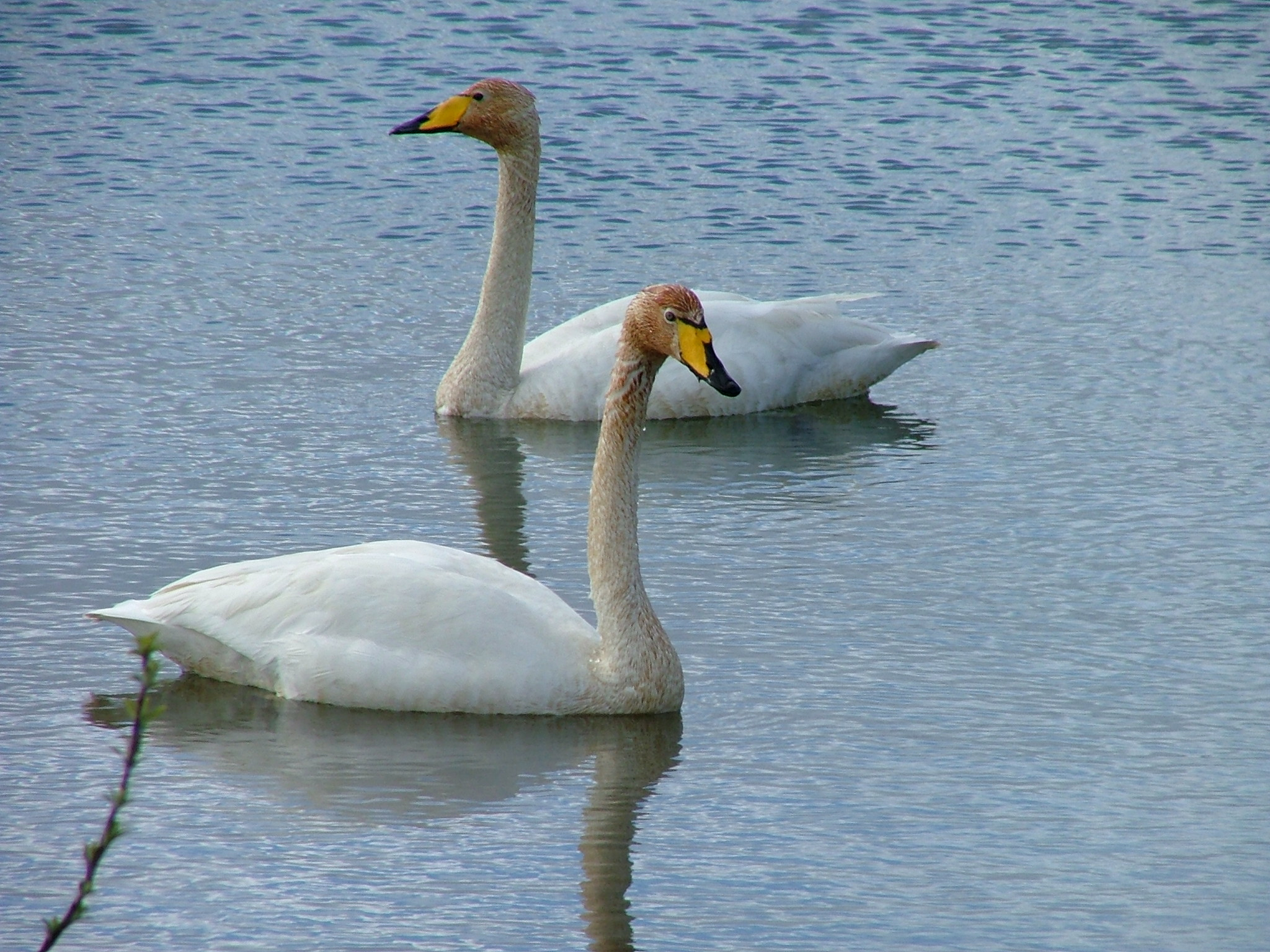 Swans at Raudavatn Iceland photo by Sunneva Filippusdóttir